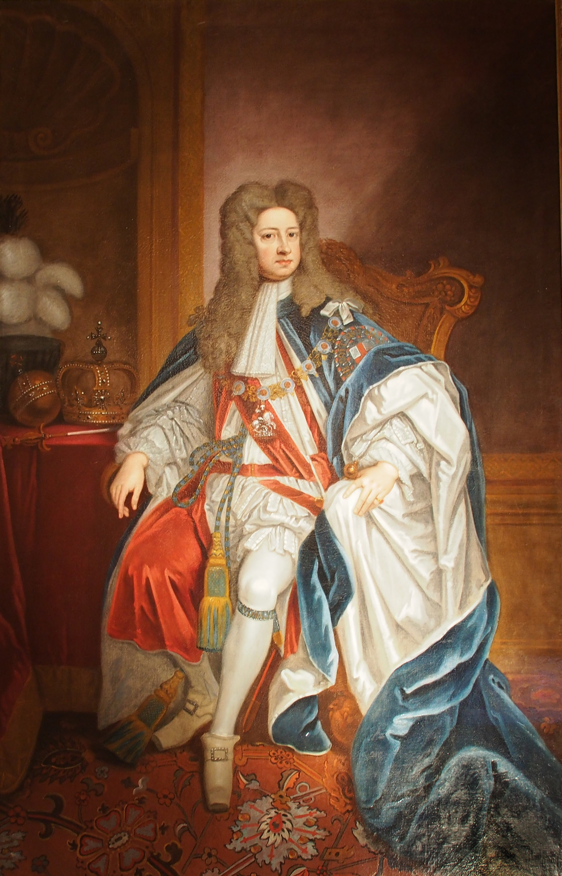 Georg I, King of Great Britain as Knight of the Order of the Garter